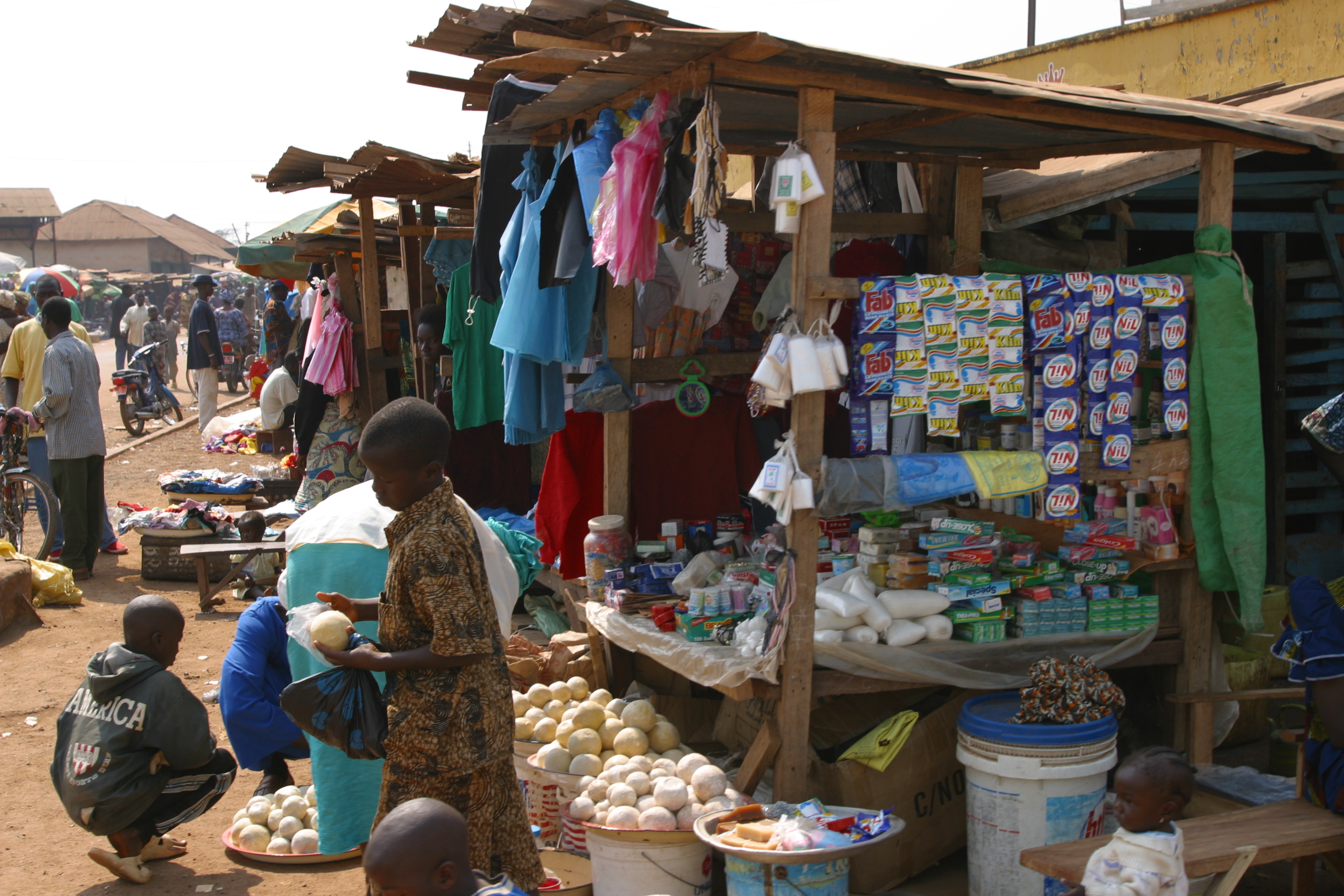 This picture was taken by me in Kissidougou on the market.